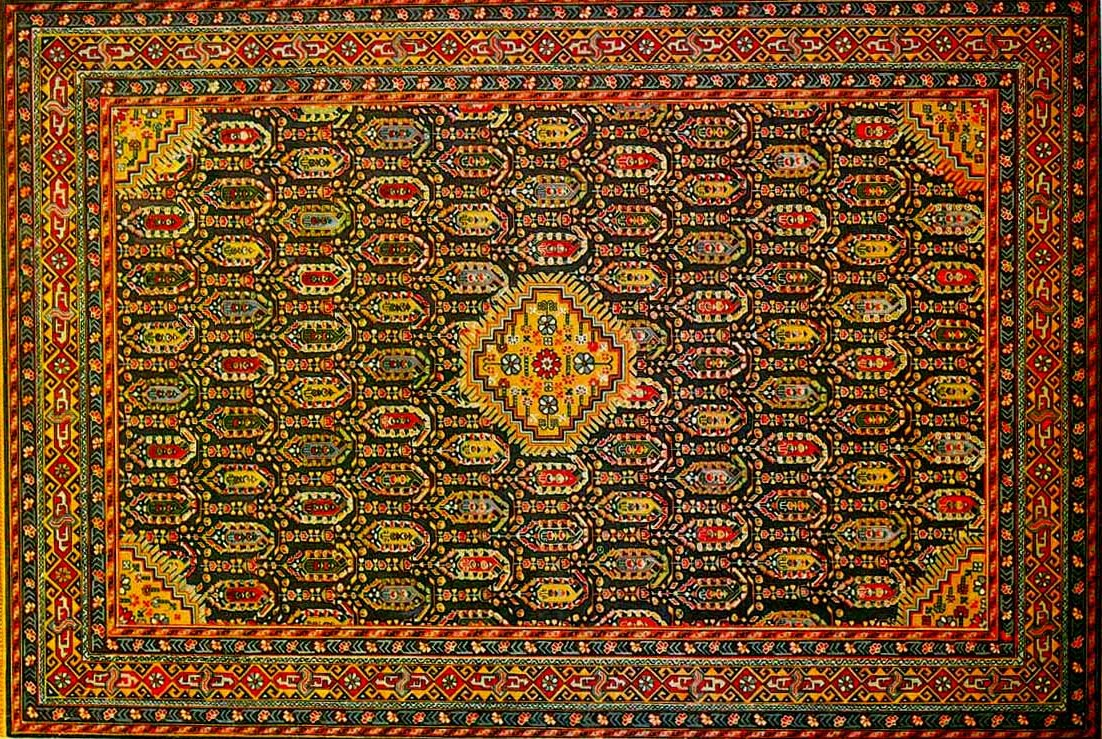 “Khila-buta” carpet from Baku (Azerbaijan)